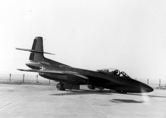 Prototype Curtiss XP-87 (XF-87) "Blackhawk" night fighter following a landing accident.